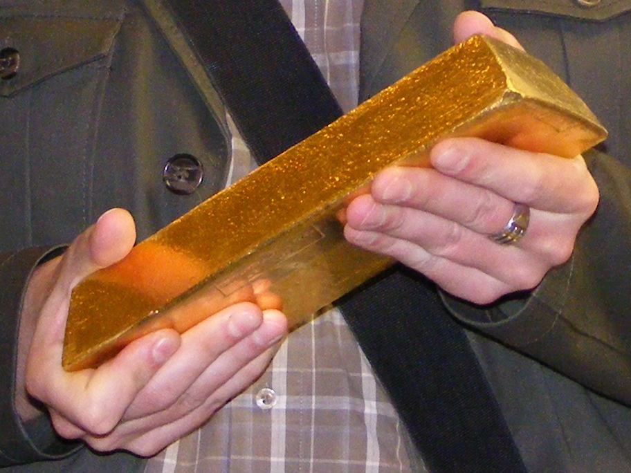 A gold bullion weighing 12½ kg. Property of the Polish National Bank